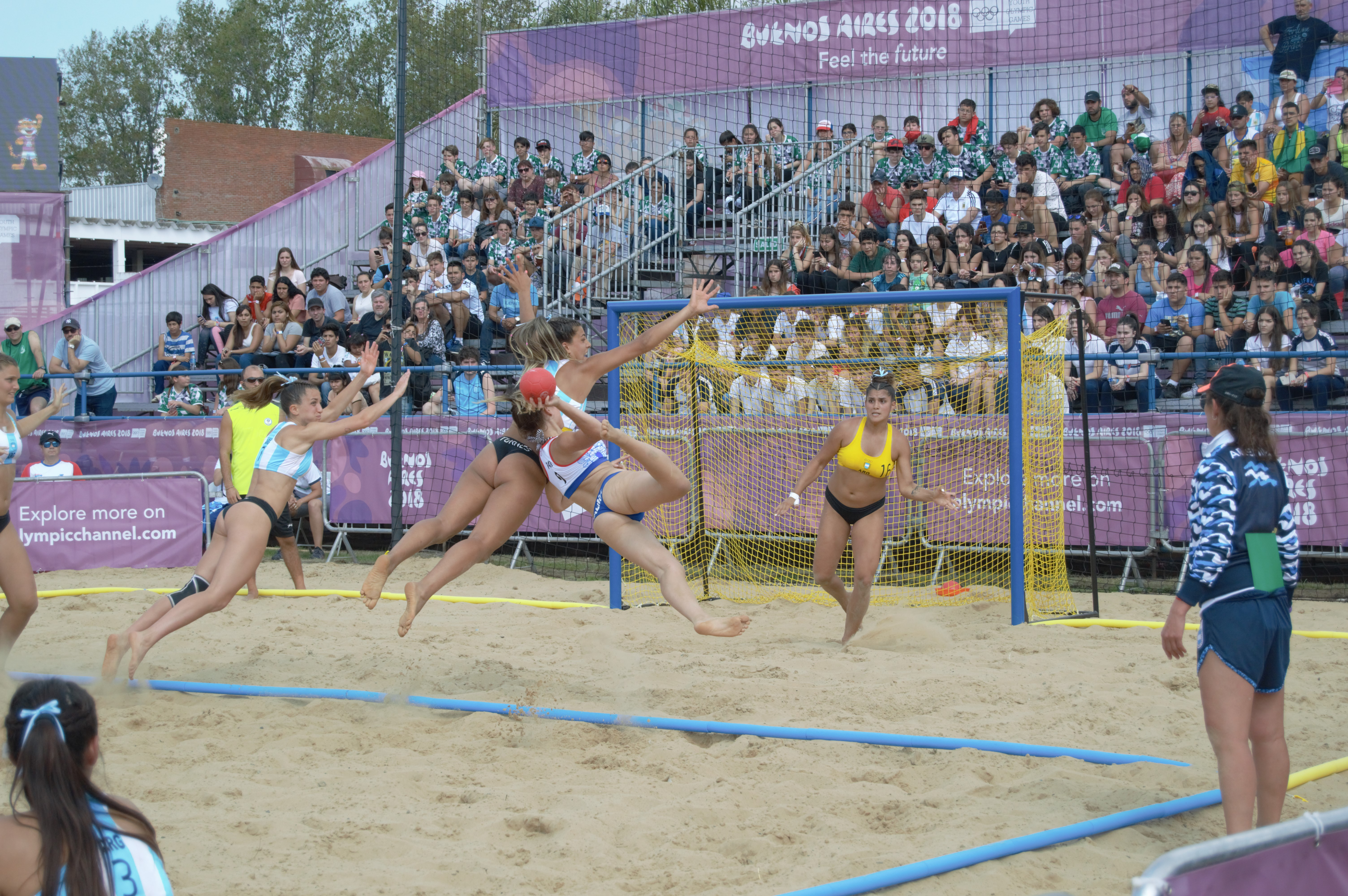 Beach handball match between Argentina and Paraguay at the 2018 Summer Youth Olympics.